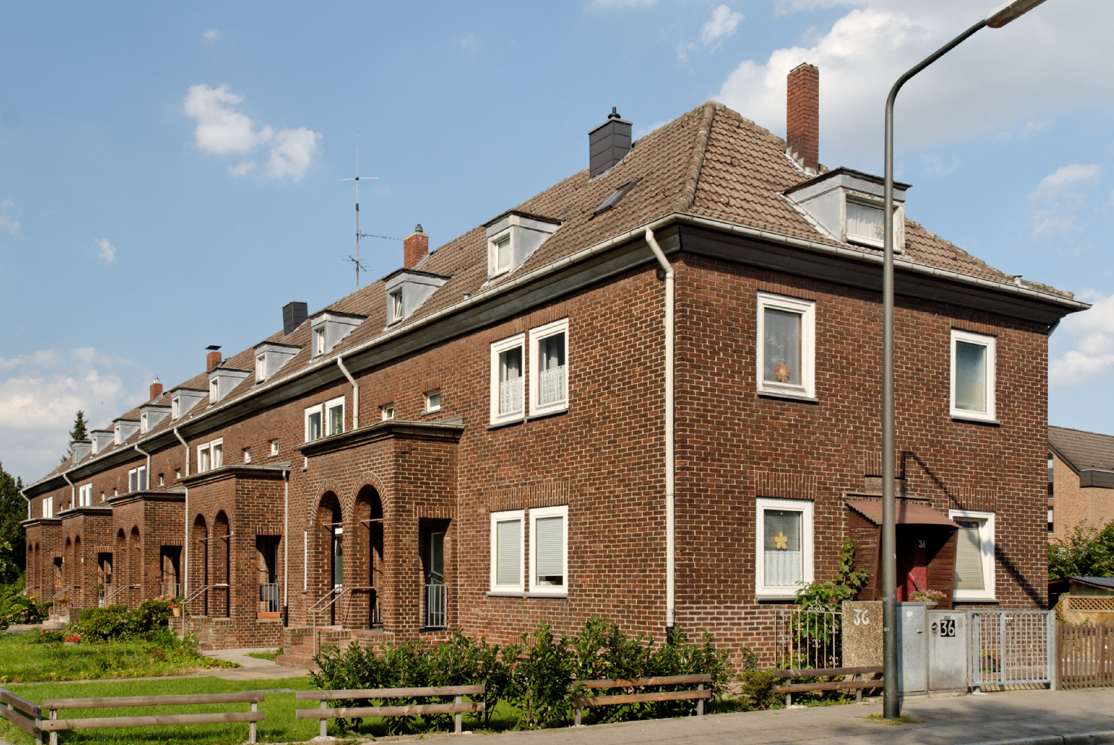 Houses Einsiedelstraße 36 to 46a in Düsseldorf-Benrath, Germany